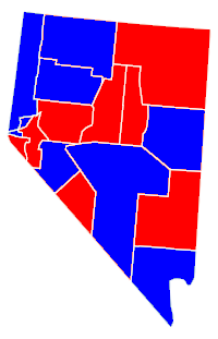 County results map of the 2004 senate election in Nevada